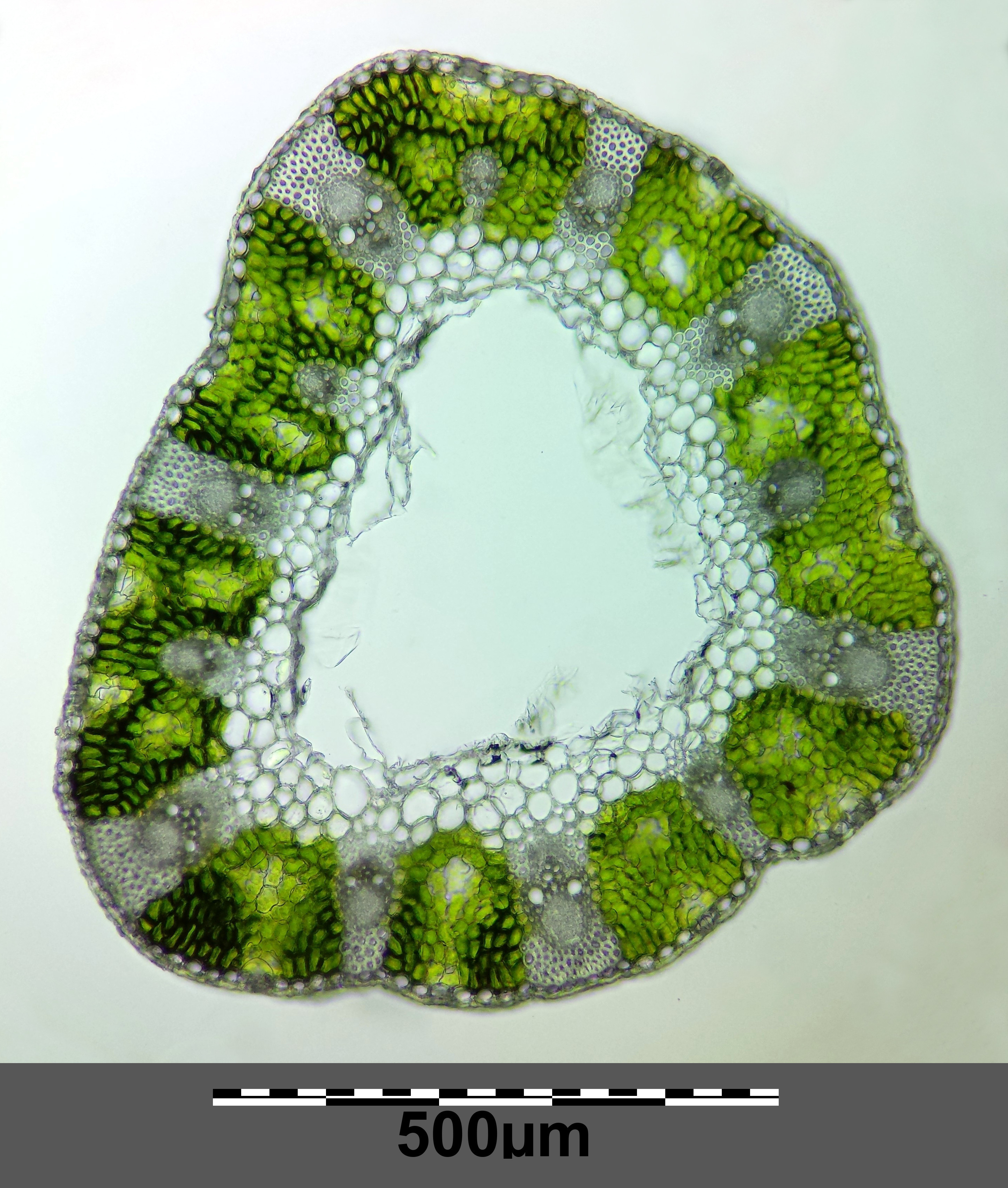 Cross section of stem Taxonym: Carex praecox ss Fischer et al. EfÖLS 2008 ISBN 978-3-85474-187-9 Location: Altenbergen to the North of Ladendorf, district Mistelbach, Lower Austria - ca. 290 m a.s.l. Habitat: slope